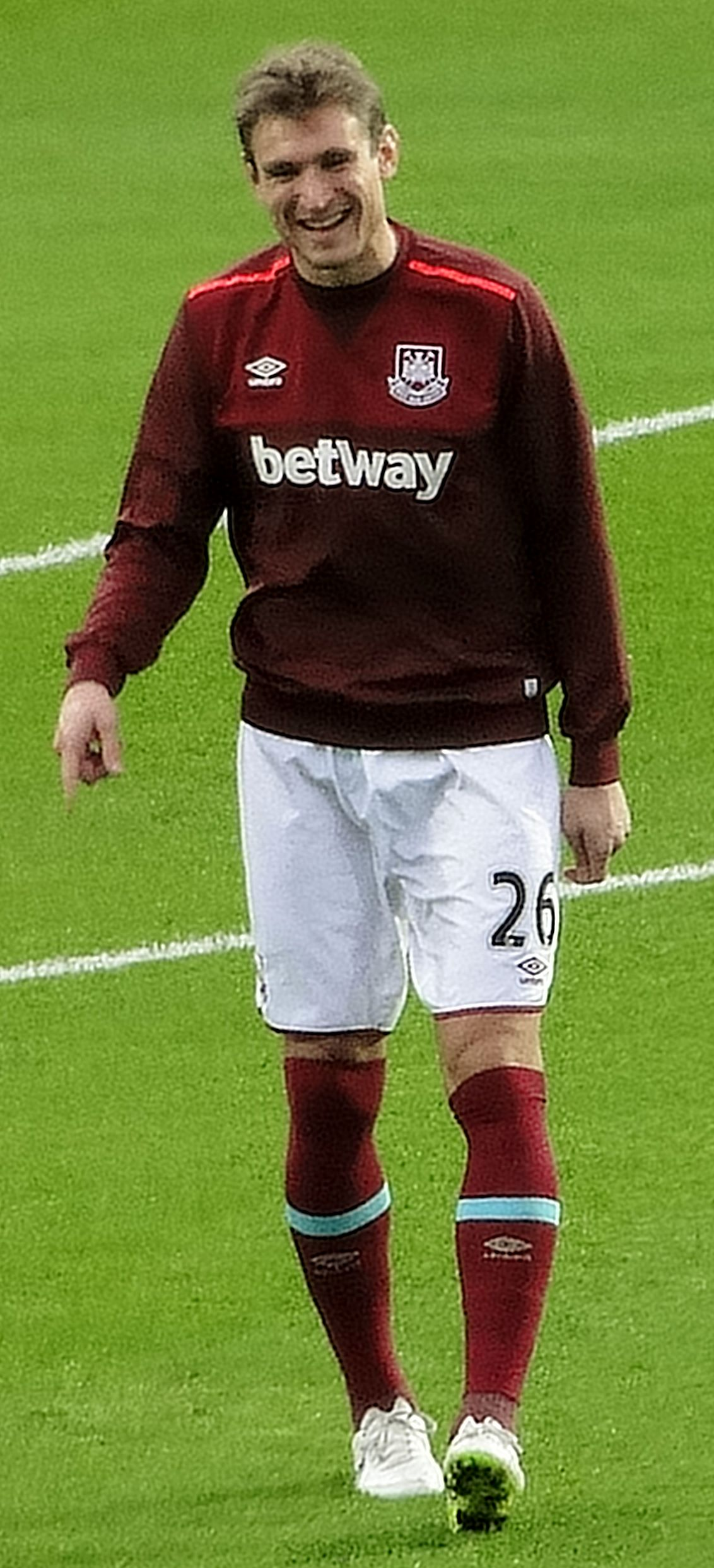 West Ham United player, Nikica Jelavić, warming up before their Premier League game against Stoke City at the Boleyn Ground, December 2015